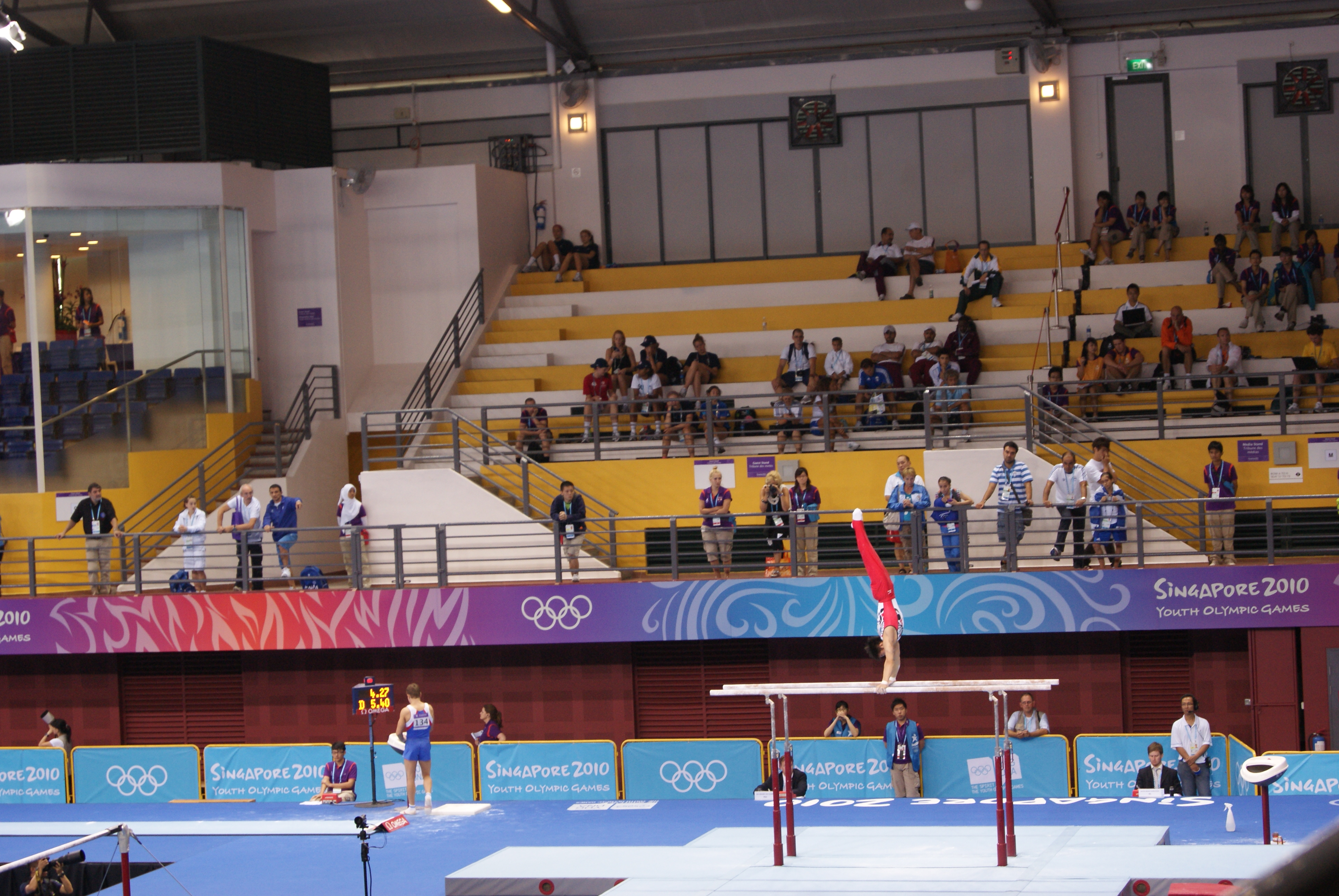 A gymnast performing on the parallel bars during Men's Qualification – Subdivision 1 of the artistic gymnastics competition at the 2010 Summer Youth Olympics at Bishan Sports Hall, Singapore.